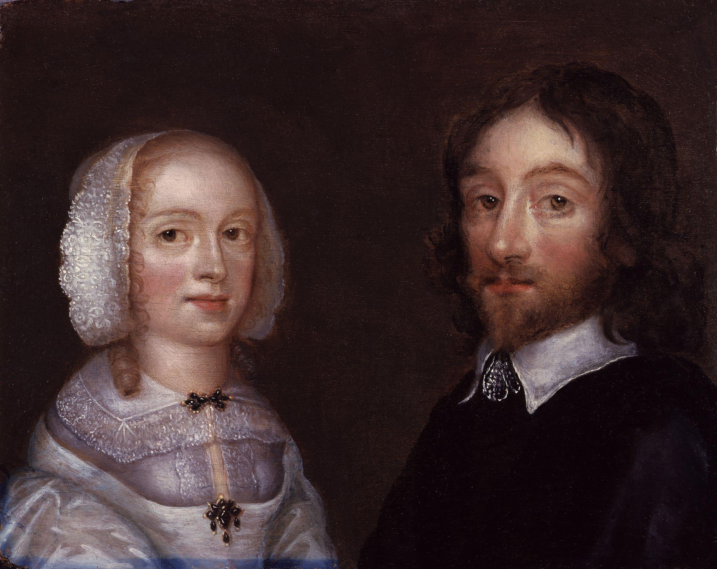 Lady Dorothy Browne (née Mileham); Sir Thomas Browne, author, by Joan Carlile (died 1679). All images in this batch have been confirmed as author died before 1939 according to the official death date listed by the NPG.